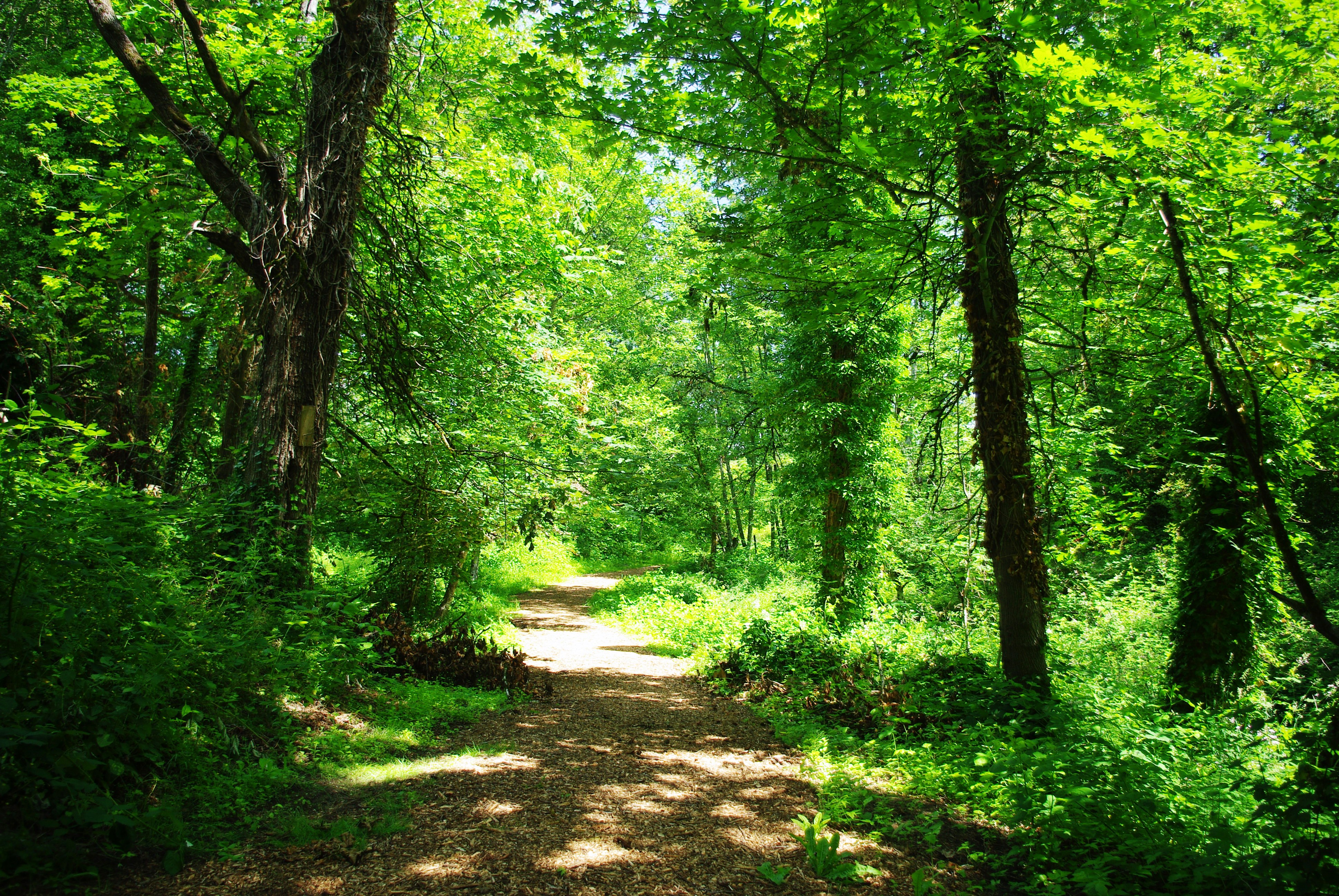 Trail and natural area at Wilsonville Memorial Park in Wilsonville, Oregon